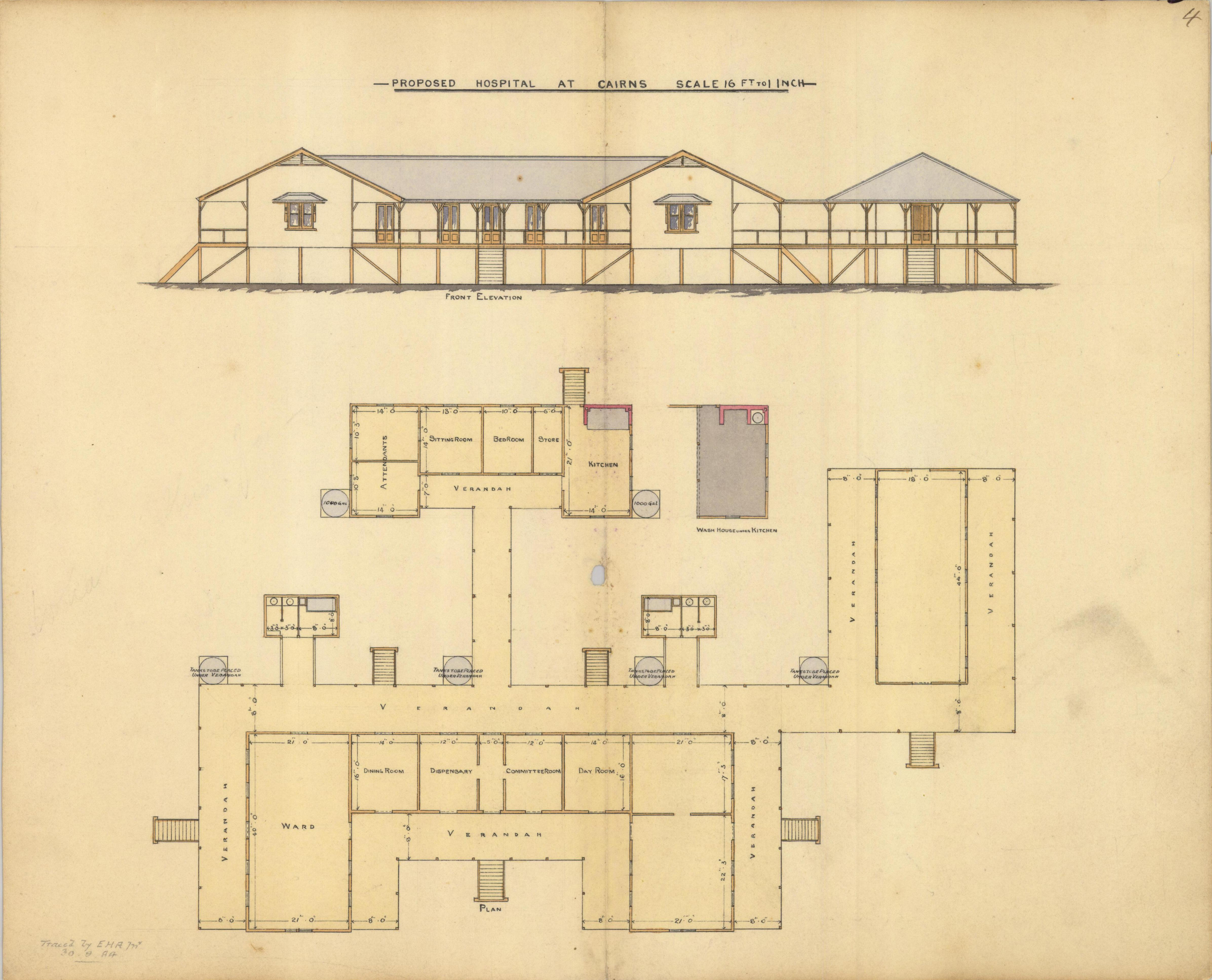 Architectural drawing of the proposed Hospital, Cairns, 30 September 1884